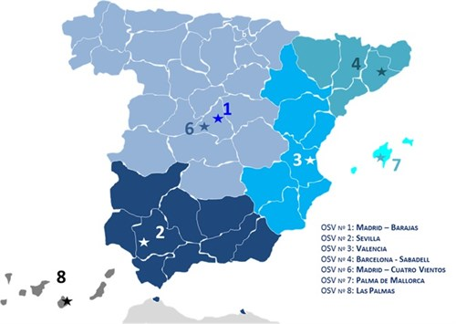 All the officies of the agency.